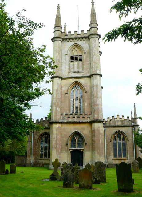 The Church of England parish church of St Lawrence, Hungerford, West Berkshire, viewed from the west. St Lawrence's is an early example of Gothic revival architecture, built in 1816 after the previous structure almost collapsed in 1814.